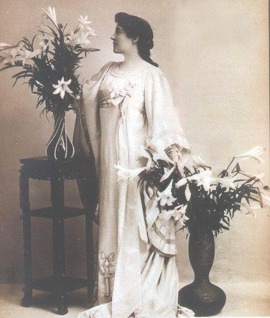 Lillie Langtry